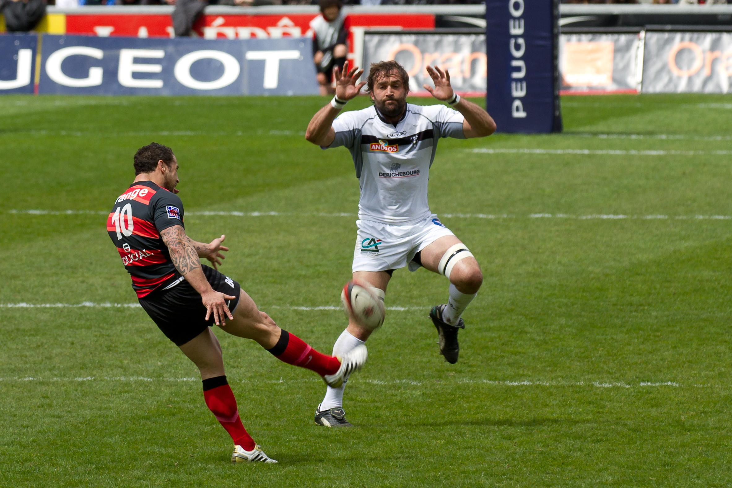 Top 14 — 21 April 2012, Stade Ernest-Wallon. Match between: Stade toulousain — CA Brive